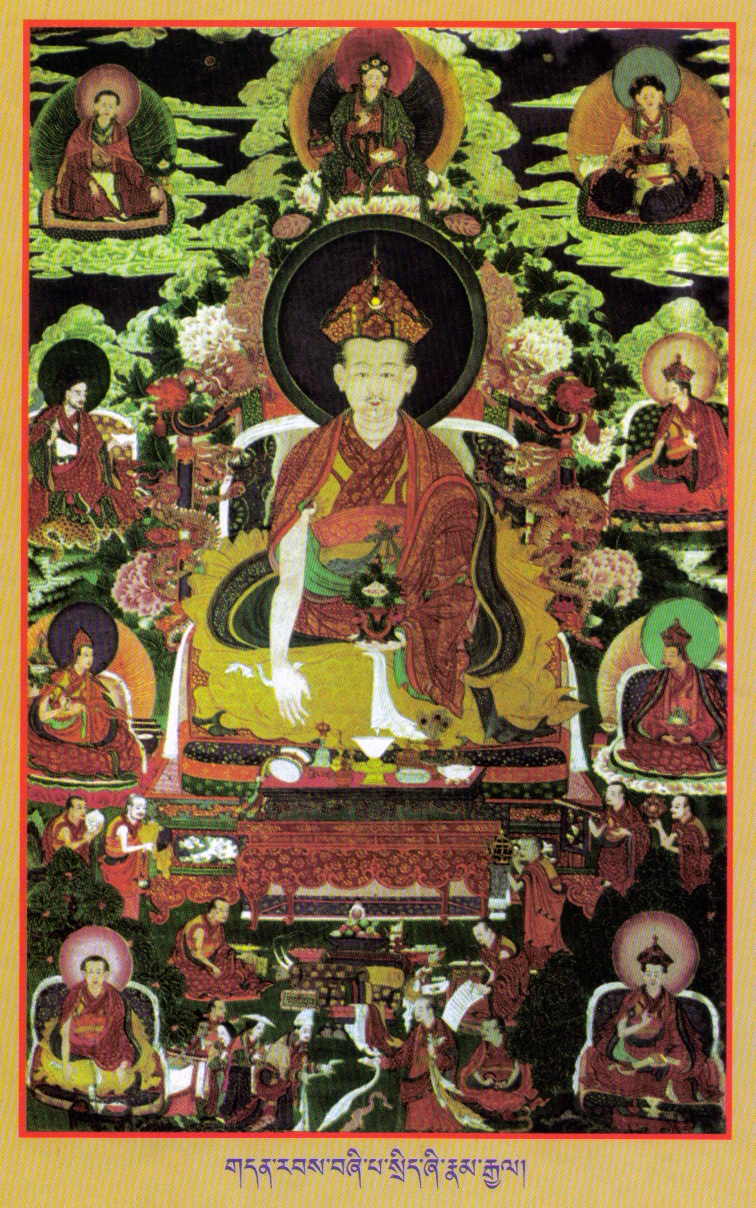 The Fourth Gangteng, Tendzin Sizhi Namgyel b.1759 - d.1790